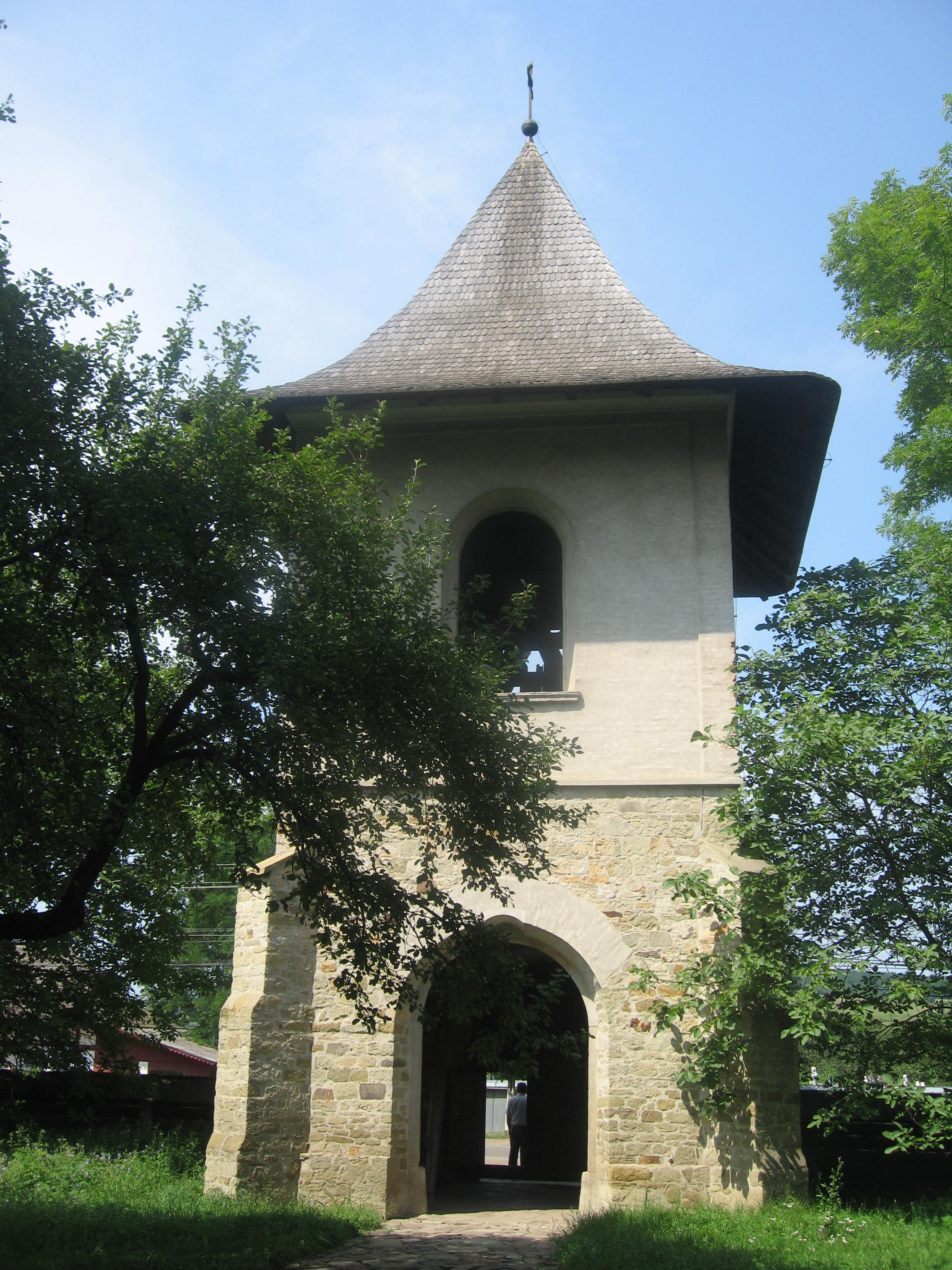 Arbore Monastery 02